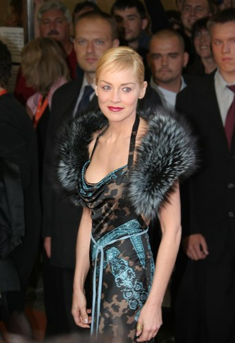 Sharon Stone on 40th Karlovy Vary International Film Festival